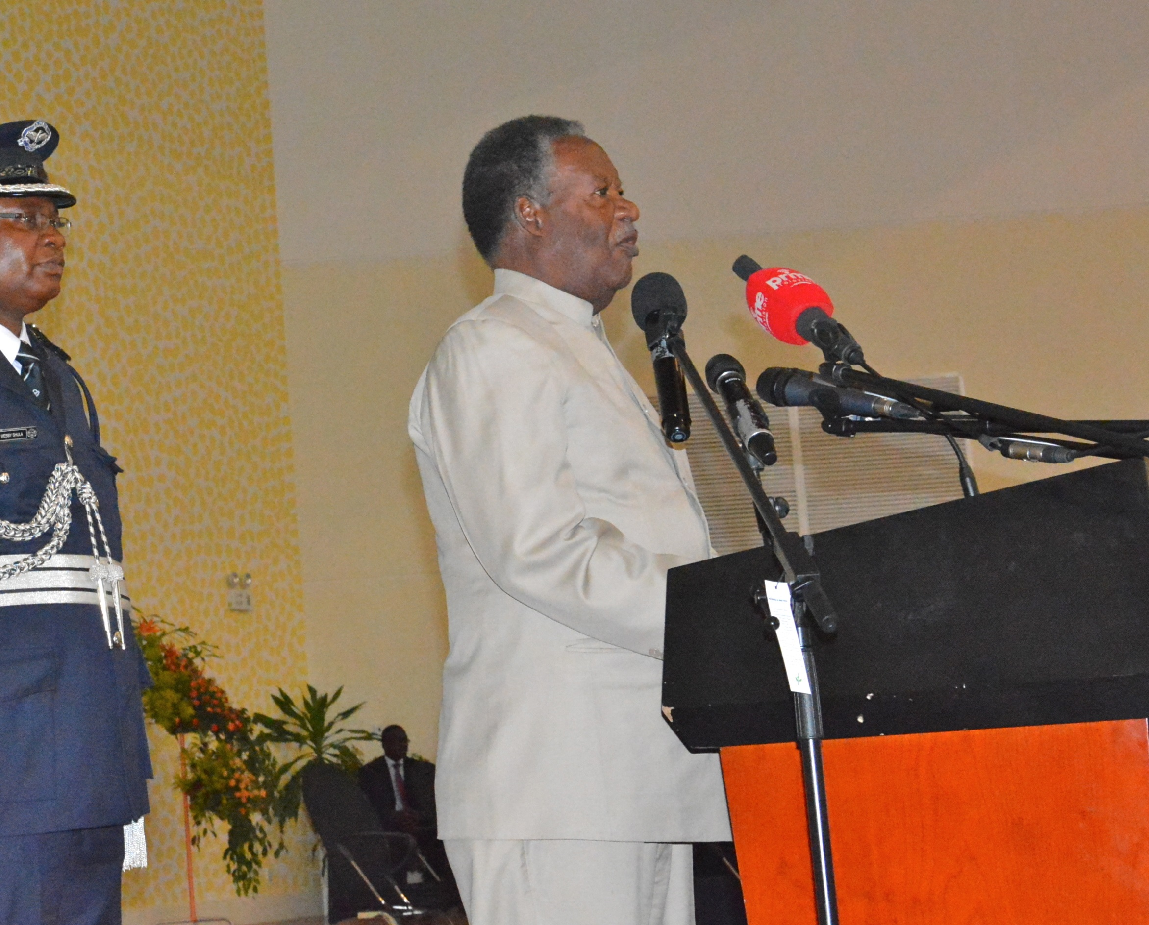 Michael Chilufya Sata (6 July 1937 – 28 October 2014)